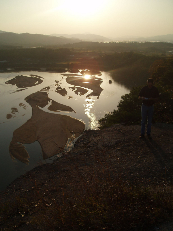 Nakdong River flowing through the region of Andong, South Korea